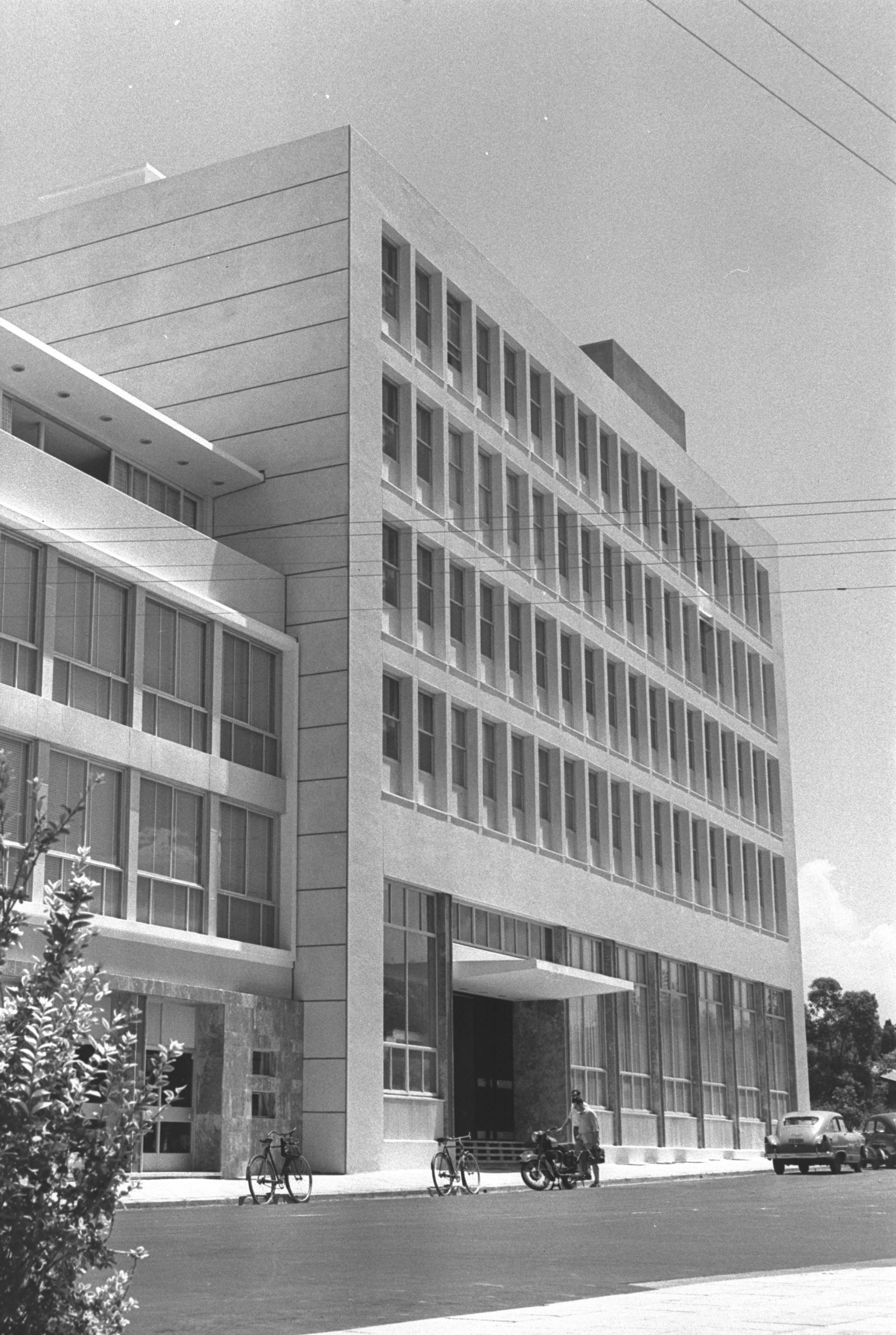 Beit Mifal Hapayis Tel Aviv